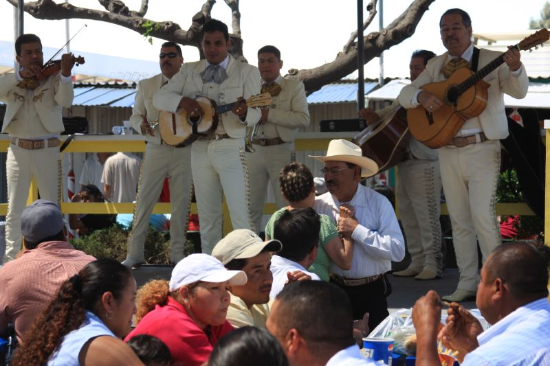 San Jose Berryessa Flea Market (La Pulga) San Jose, CA